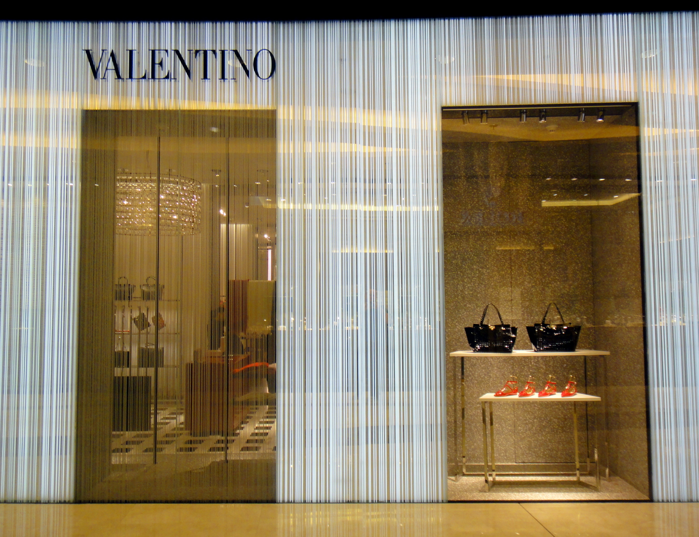 Valentino shop inside the Elements, Union Square, Kowloon.